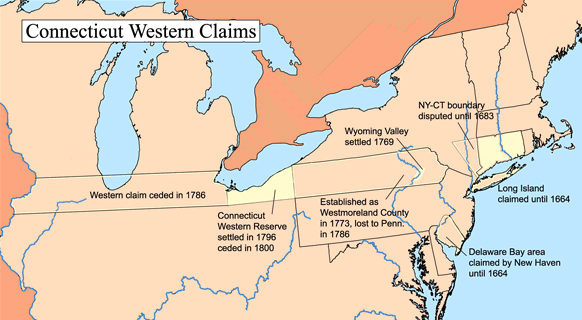 This is a map showing Connecticut land claims outside present day Connecticut from the colonial era.